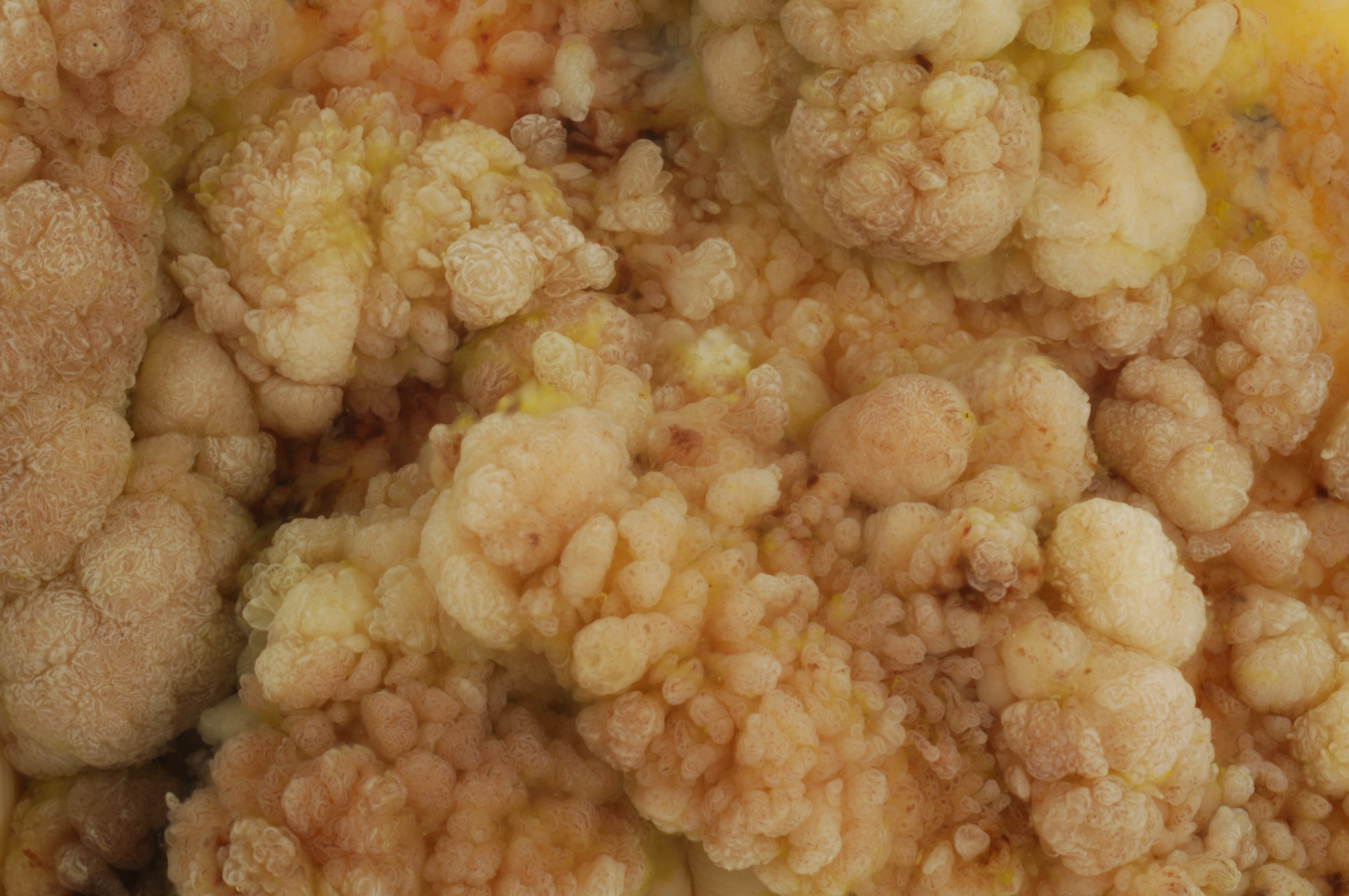 This large villous adenoma carpets the cecum of a right colectomy specimen. The fixed specimen is immersed in tapwater to display the delicate filigree of the villous surface pattern. To view another (better) presentation of this image, check out the version on the Website of Objective Pathology. Pathological and histological images courtesy of Ed Uthman at flickr.